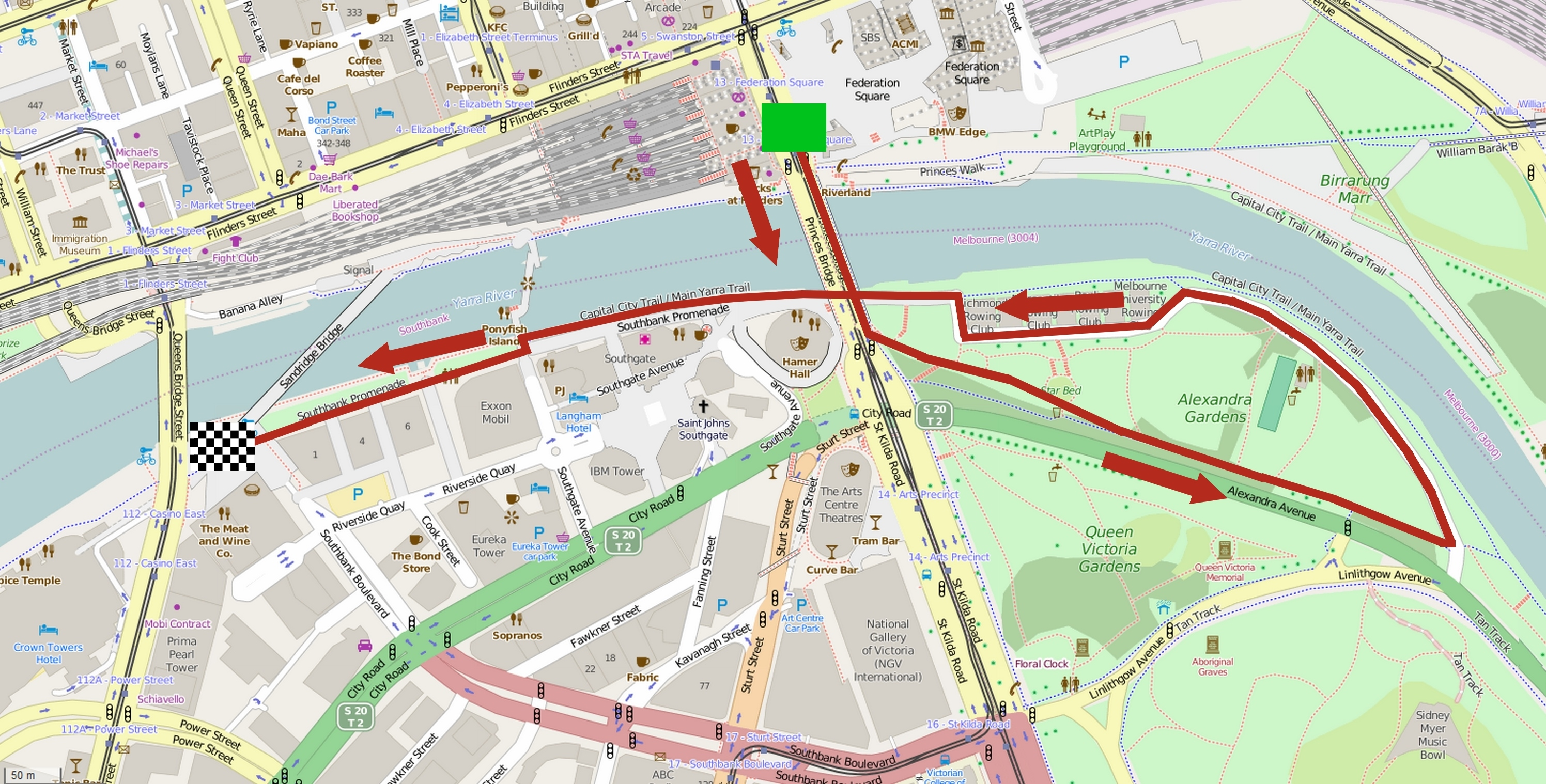 Parcours du prologue du Herald Sun Tour 2016. This map may be incomplete, and may contain errors. Don't rely solely on it for navigation.